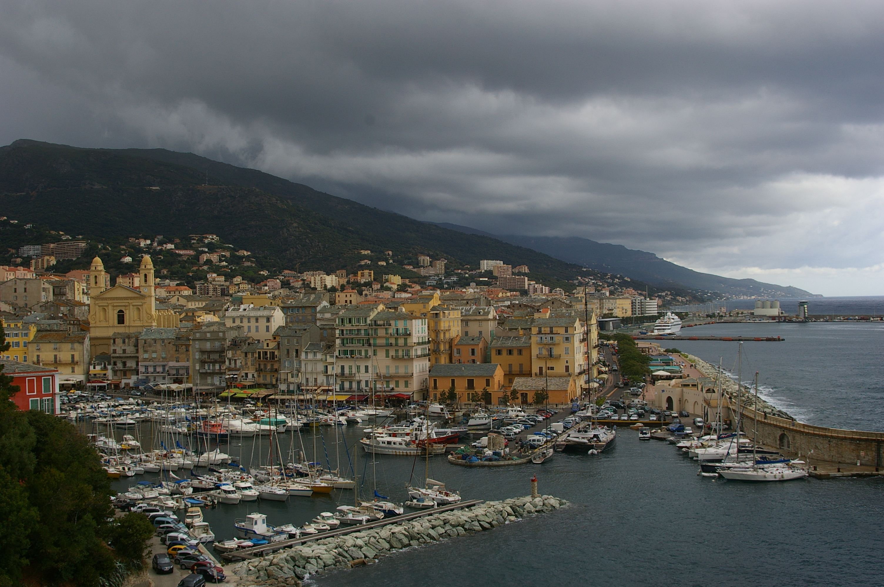 The old harbour of Bastia